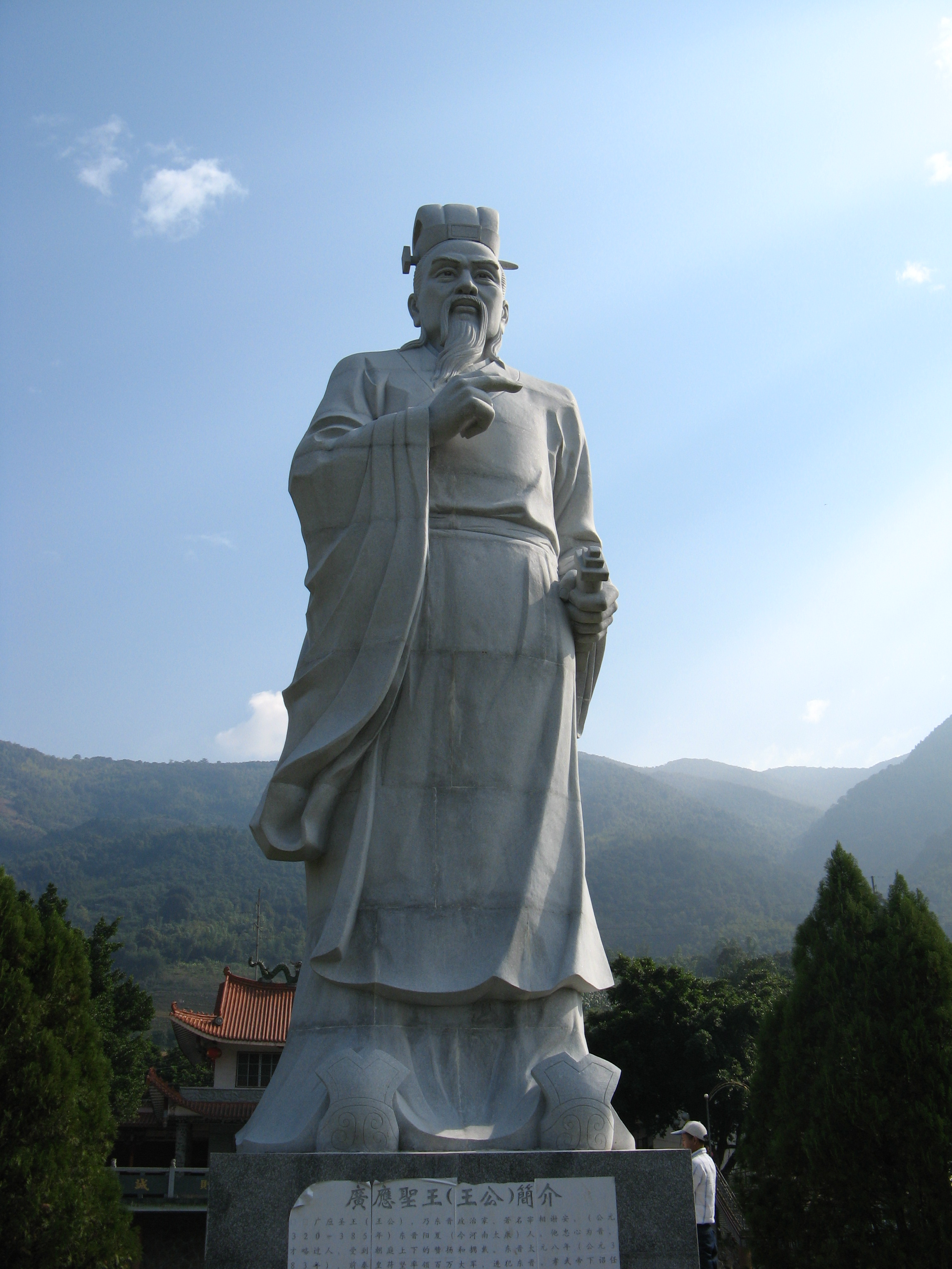 Statue of Xie An, in Zhangzhou, Fujian Province